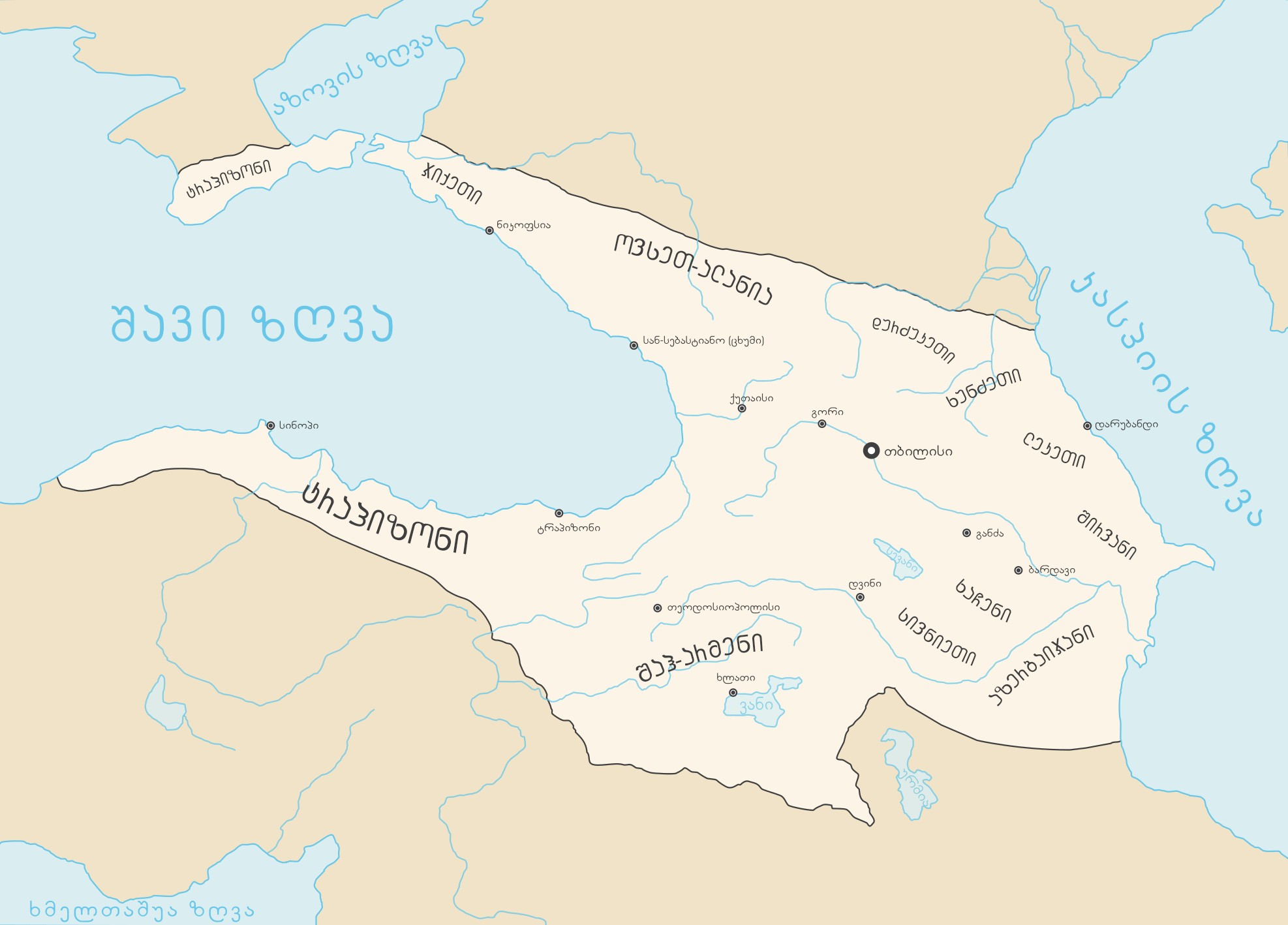 Territory controlled and acquired by Georgians under the rule of Tamar Queen.